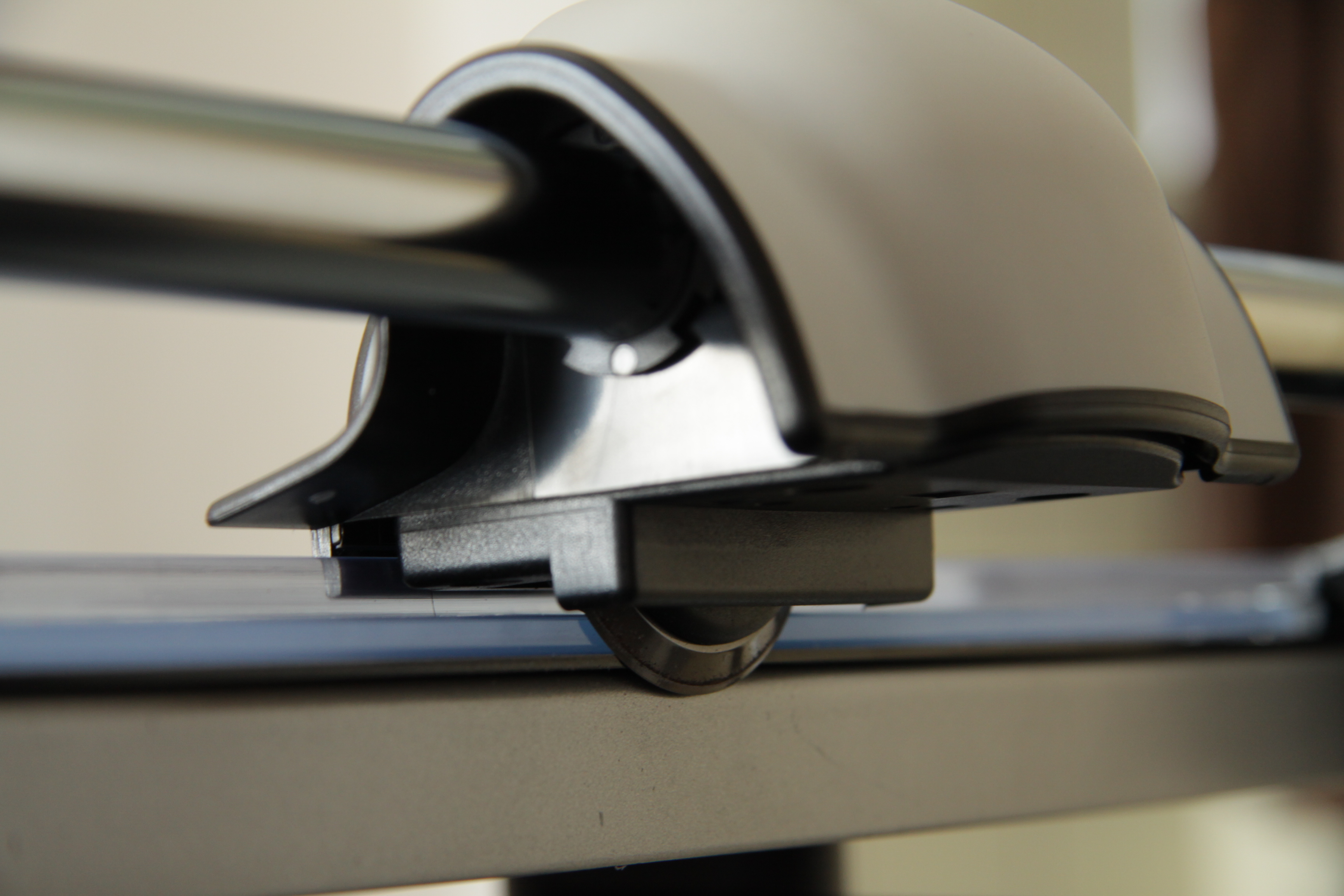 Cutting head of large format paper cutter